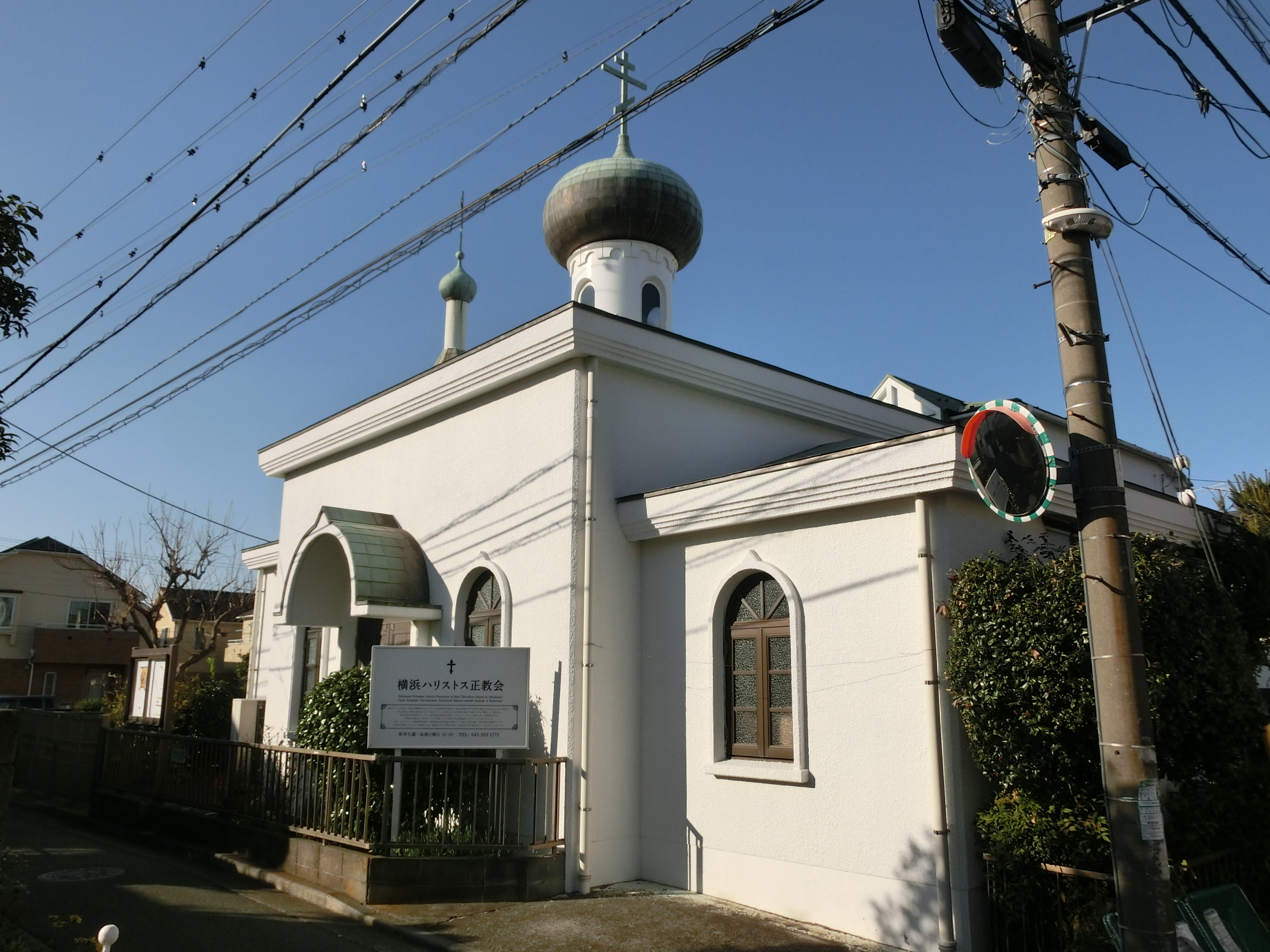 Yokohama Orthodox Church